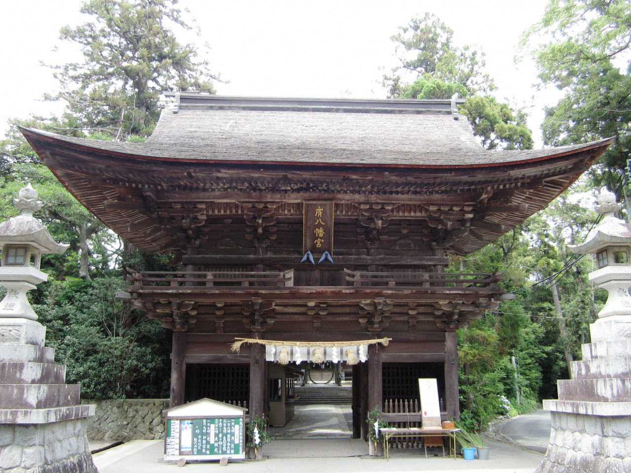 Rōmon of Fuhachimangū.